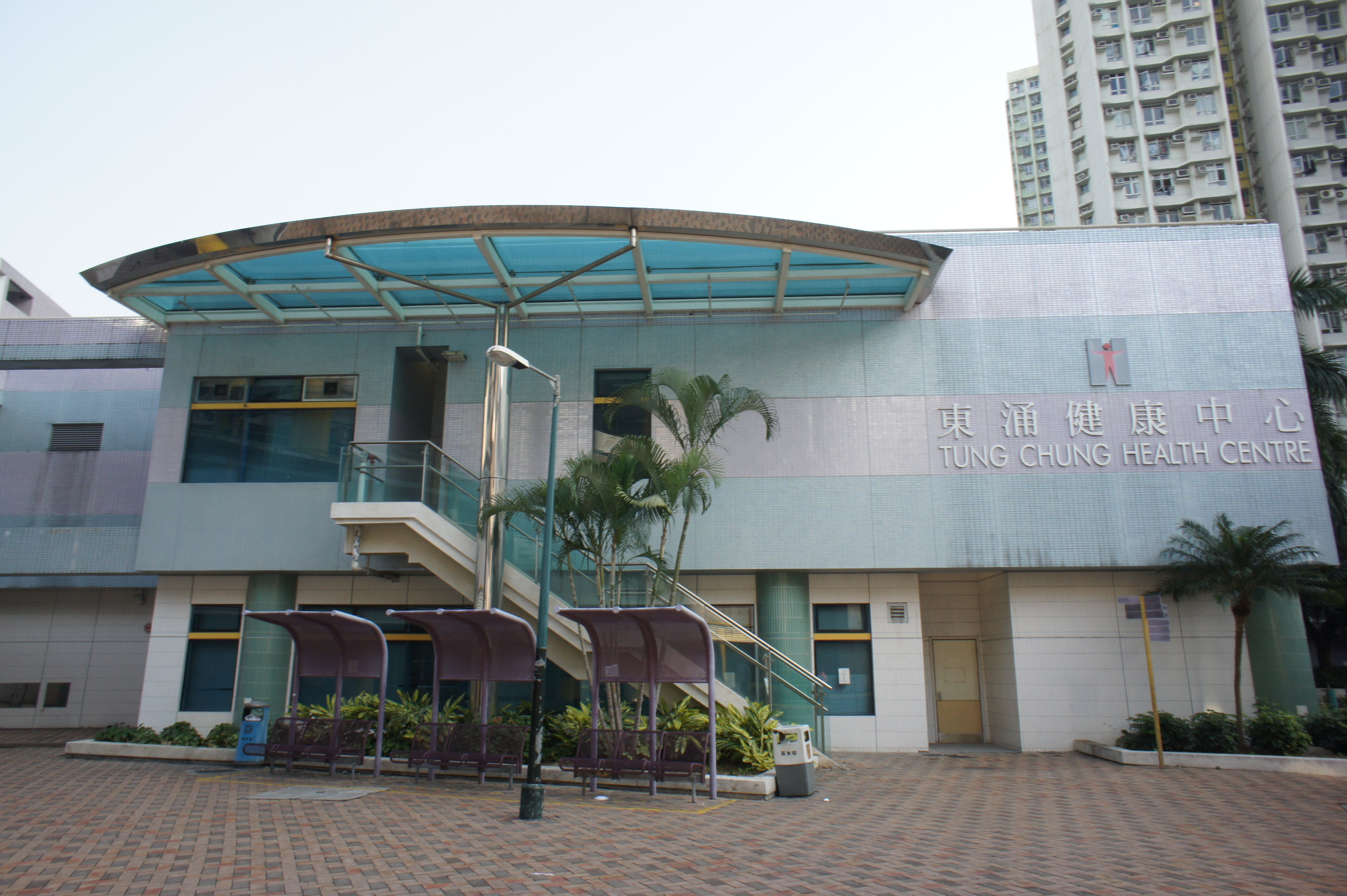 Tung Chung Health Centre, Lantau Island, Hong Kong.